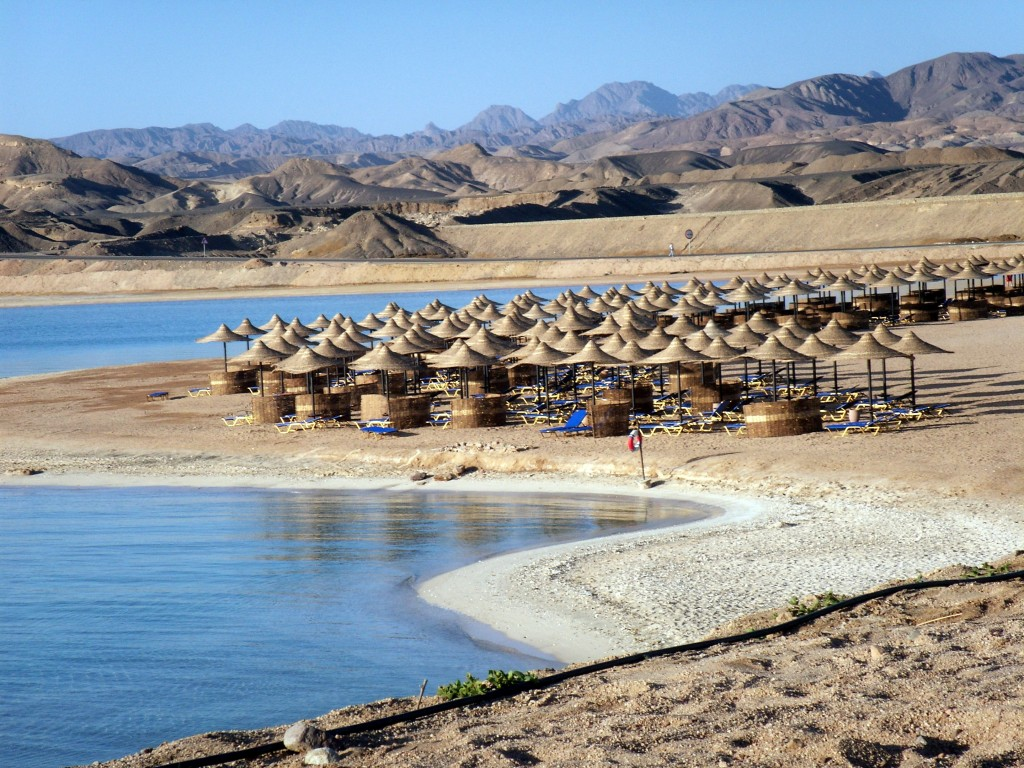 Magic Life Club in Kalawy Bay near Port Safaga / Al-Qusair / Egypt / Red Sea.